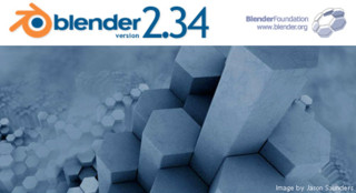 Open Screen of Blender 2.34.